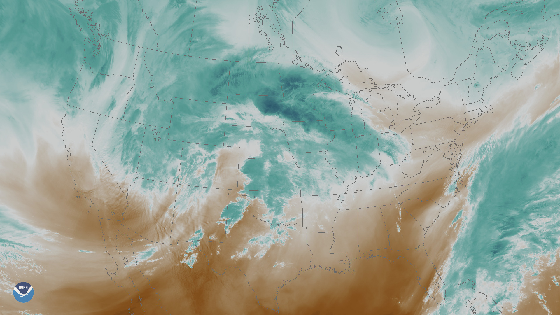 A powerful late-season winter storm is set to unleash heavy snow and high winds across parts of the north-central Plains and the upper Midwest beginning Wednesday, April 10, 2019. Blizzard warnings are in effect for northeastern Colorado, southeastern Wyoming, western and central Nebraska, northwestern Kansas, southwestern Minnesota and nearly all of South Dakota. The National Weather Service warns that both air and ground travel will become hazardous as visibilities could at times drop to near-zero. Widespread power outages are also likely, with 1 to 2 feet of snow possible for the central and northern Plains, as well as western Minnesota through Thursday evening. This water vapor imagery from the GOES East satellite is created using a wavelength sensitive to the moisture content in the atmosphere. In this imagery, bright blue and white areas indicate the presence of high water vapor or moisture content. Behind the winter storm, areas of dark orange and brown indicate the presence of little to no moisture. These very dry conditions combined with high winds could produce favorable conditions for rapid wildfire growth across the High Plains and Southwest.